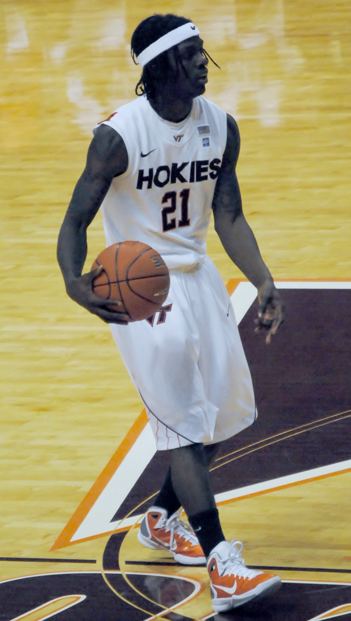 Tyrone Garland brings the ball up against the Deacs.